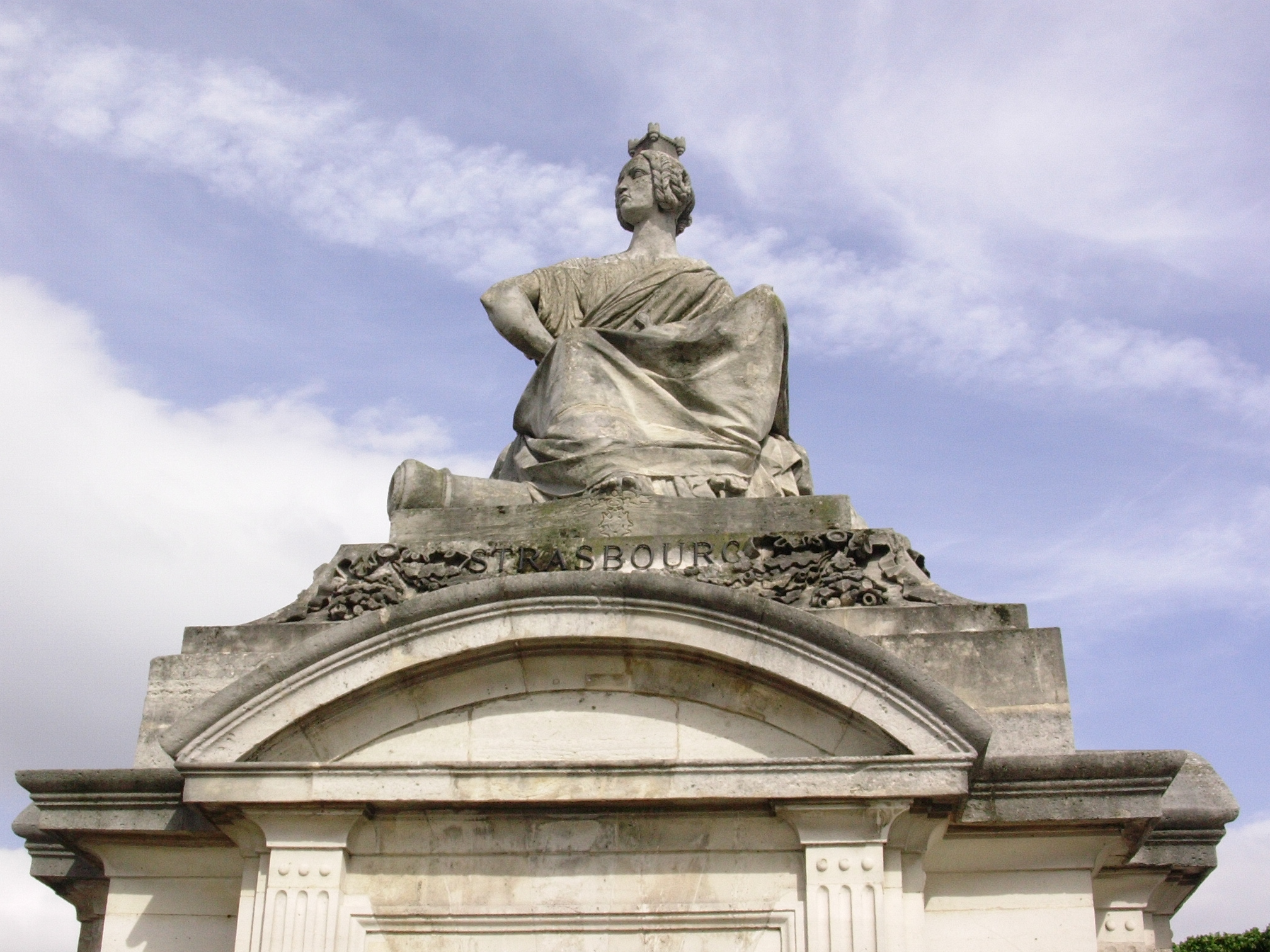 Statue de Strasbourg at Place de la Concorde in Paris, featuring actress Juliette Drouet as Strasbourg, sculpted by her spouse James Pradier. (Source: Juliette Drouet)